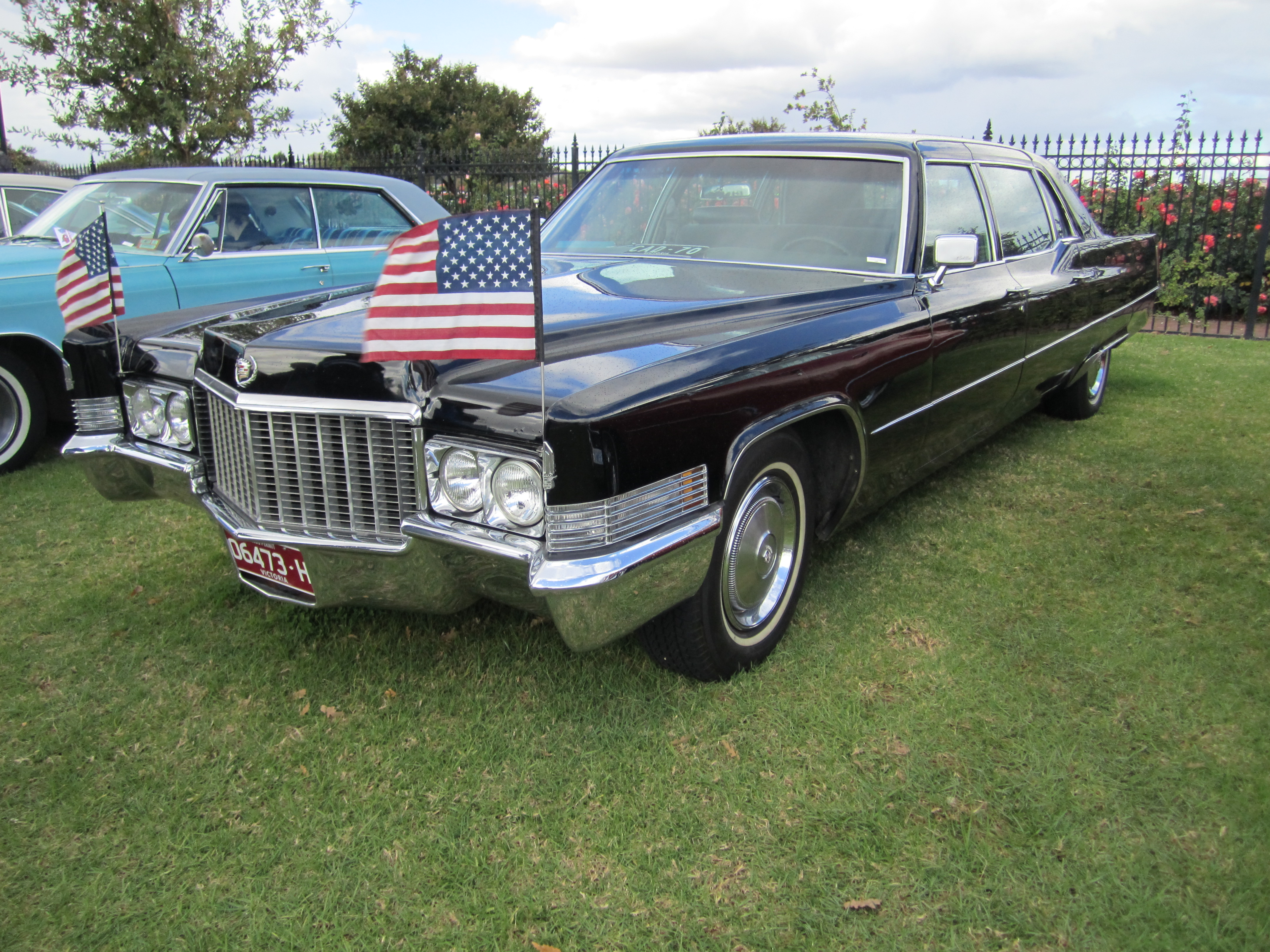 Available in Sedan, Coupe or Convertible. Engine; 500cu in V8